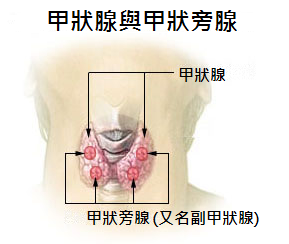 Thyroid and parathyroid glands.